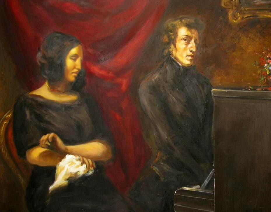 Painting I commissioned and of which I own the only copy based on the circa 1837 preliminary sketch of Eugene Delacroix's joint portrait of Frédéric Chopin and George Sand